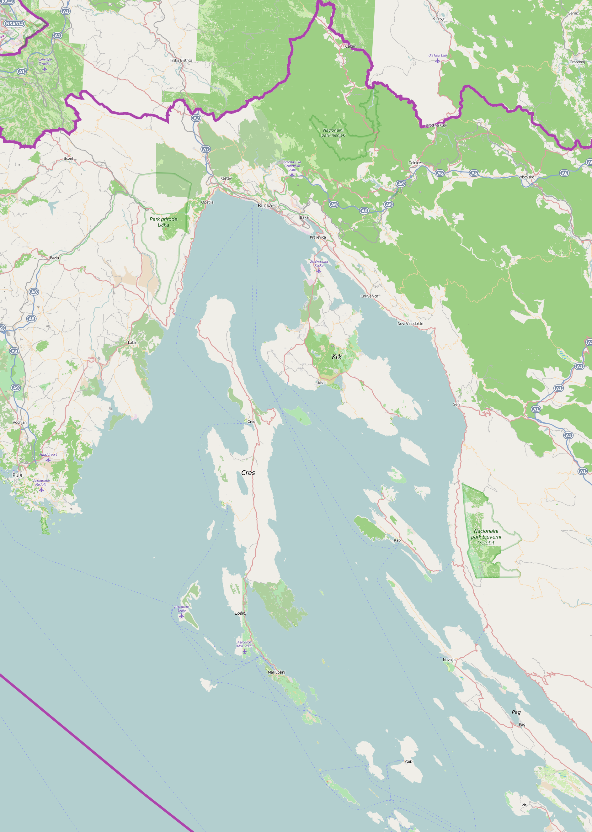 .PNG version to help reduce the size of the SVG variant.